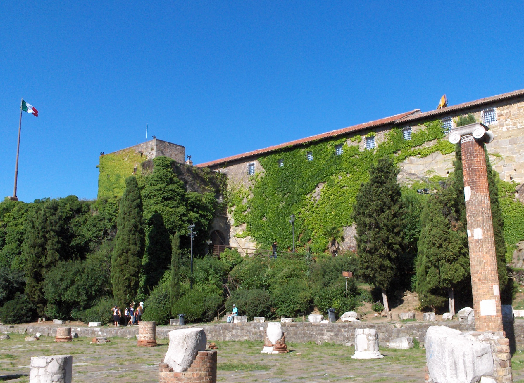 Roman forum and Medieval castle, Colle di San Giusto, Trieste